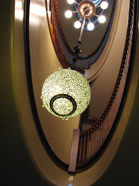 photograph taken of the center stair and hanging light in the Ayer Mansion designed by Louis Comfort Tiffany